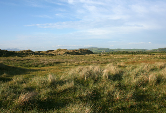 Sand dunes at Sandscale Haws Part of the National Nature Reserve of Sandscale Haws, managed by the National Trust. Bank House Moor (centre) and the windfarm on Hare Slack Hill (centre right) are visible on the horizon. View from near the footpath northwards from Scarth Bight. For more information